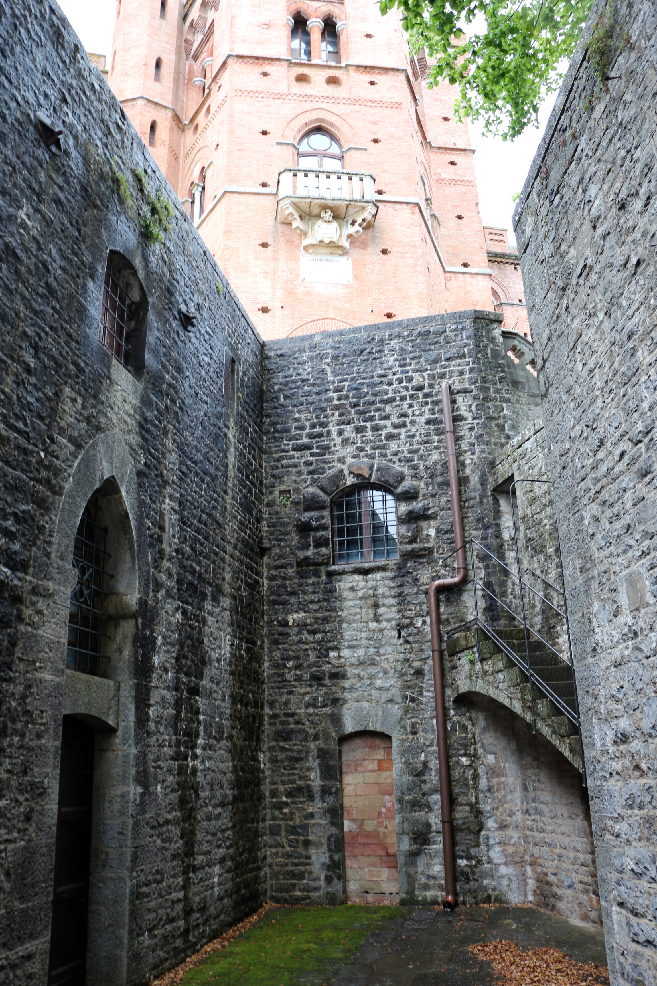 Castello di Brolio